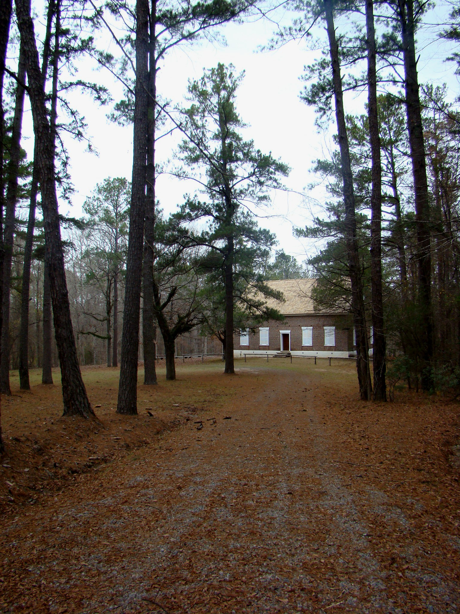 Old Kiokee Baptist Church, Appling, Georgia.